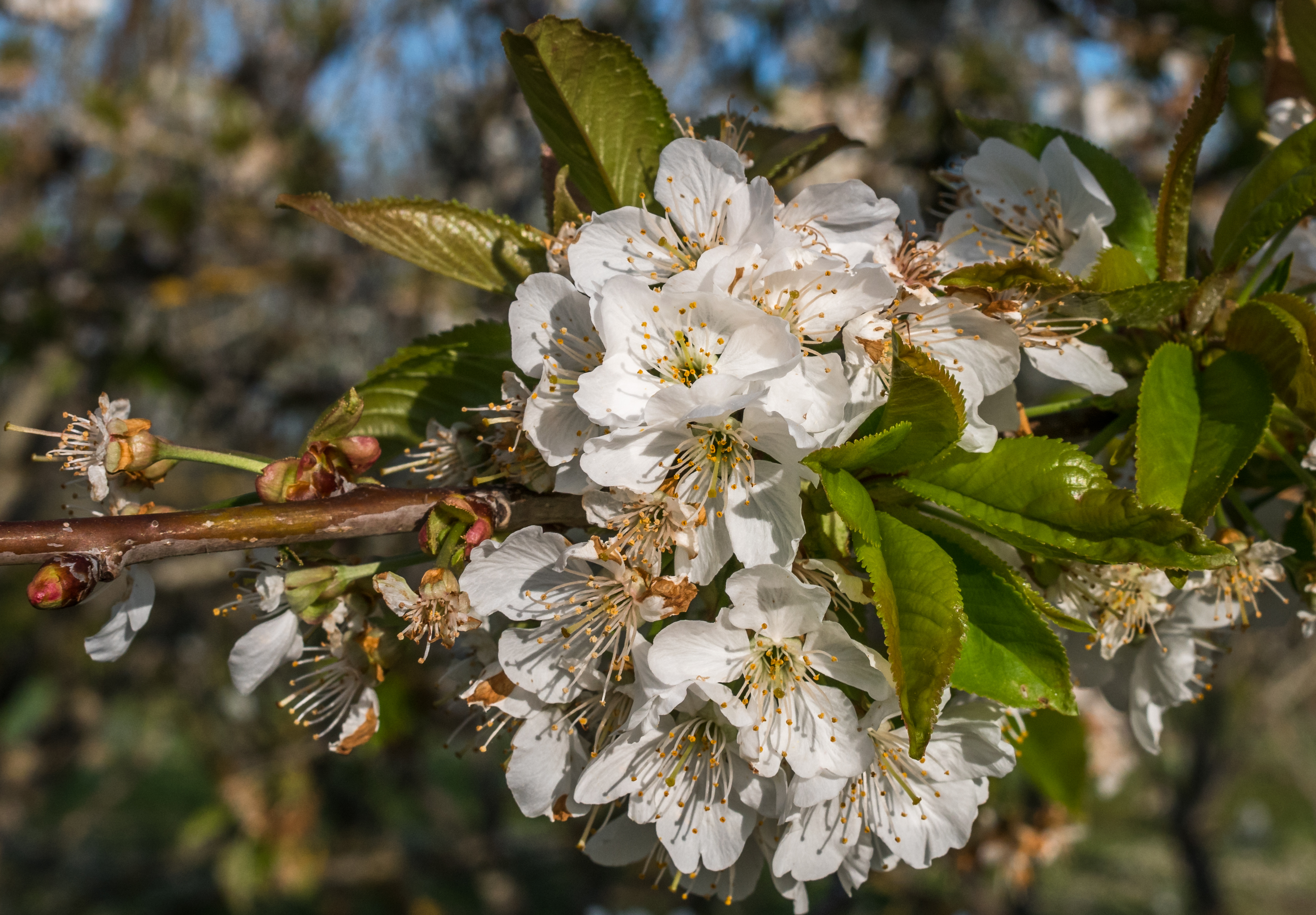 Cherry flowers (Prunus avium 'Lapins') at the Olarizu Allotments. Vitoria-Gasteiz, Basque Country, Spain